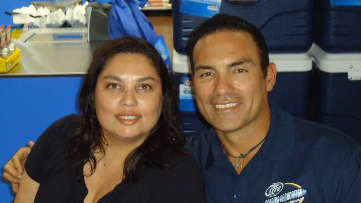 Tony Casillas - Dallas Cowboys - September 2011 - Arlington, Texas - MNF - Cowboys vs Redskins Pregame